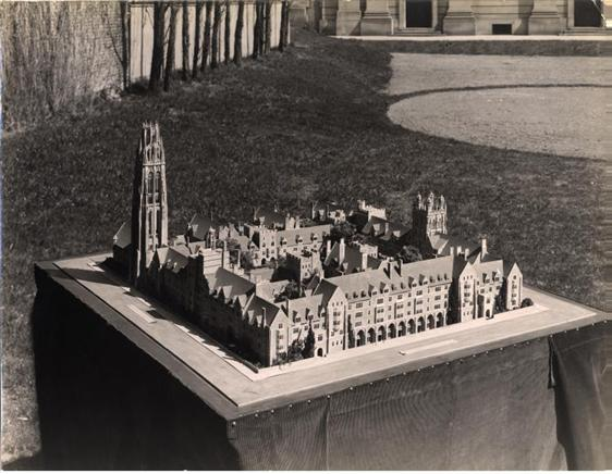 High Street on the left and Elm Street in the foreground. Designed by James Gamble Rogers and built by Marc Eidlitz & Son, Inc.